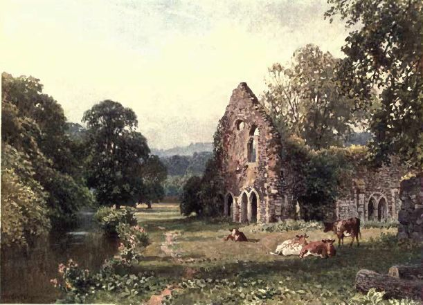 Harry Sutton Palmer - Wikipedia:Waverley Abbey near Farnham (1906)